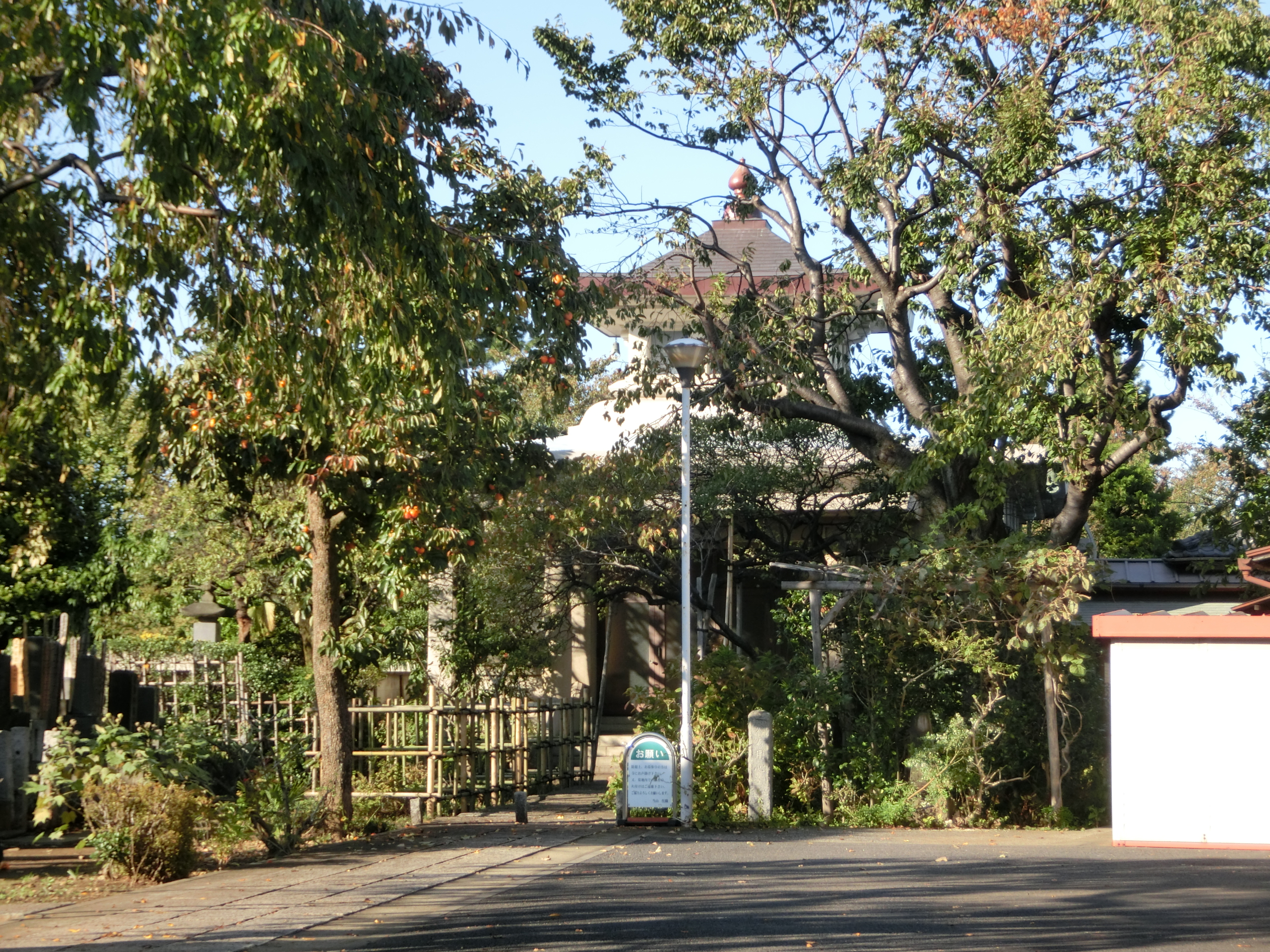 Ryogen-ji (Yanaka, Taito)